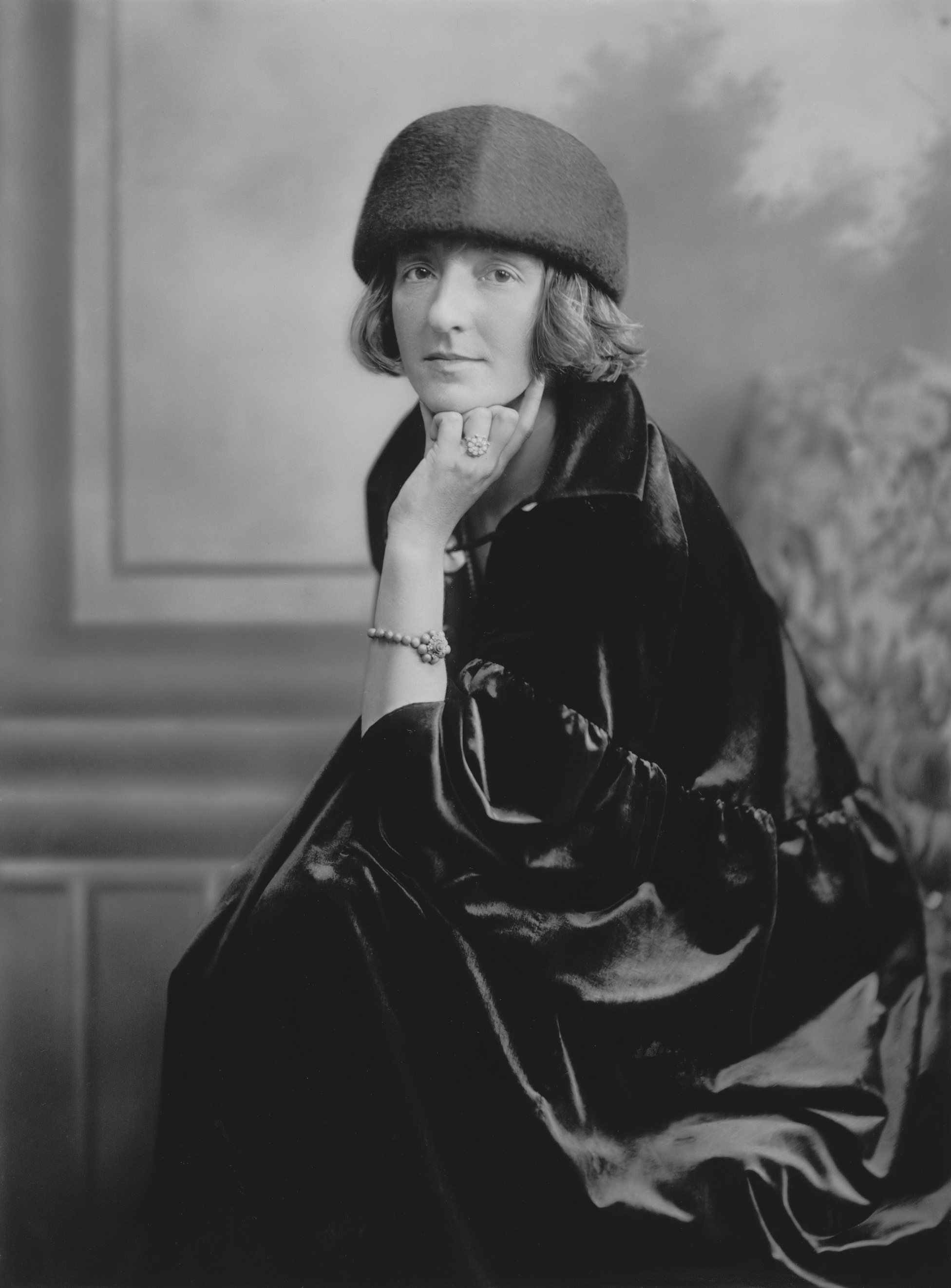 Gertrud Leistikow (1885-1948). Danseres. 1921